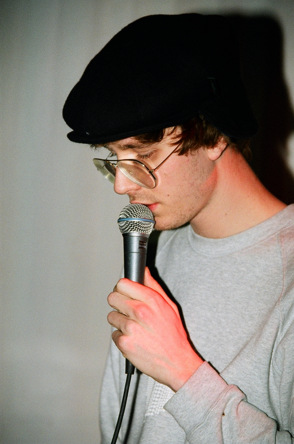 Author: Julica da Costa, Berlin 2005. All rights permitted.